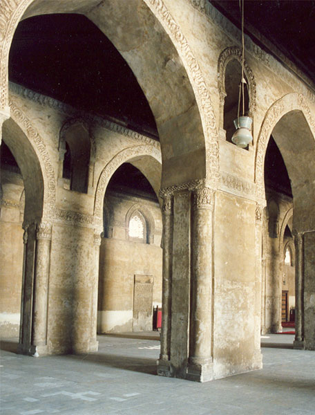 Ibn Tulun mosque. Cairo, Egypt